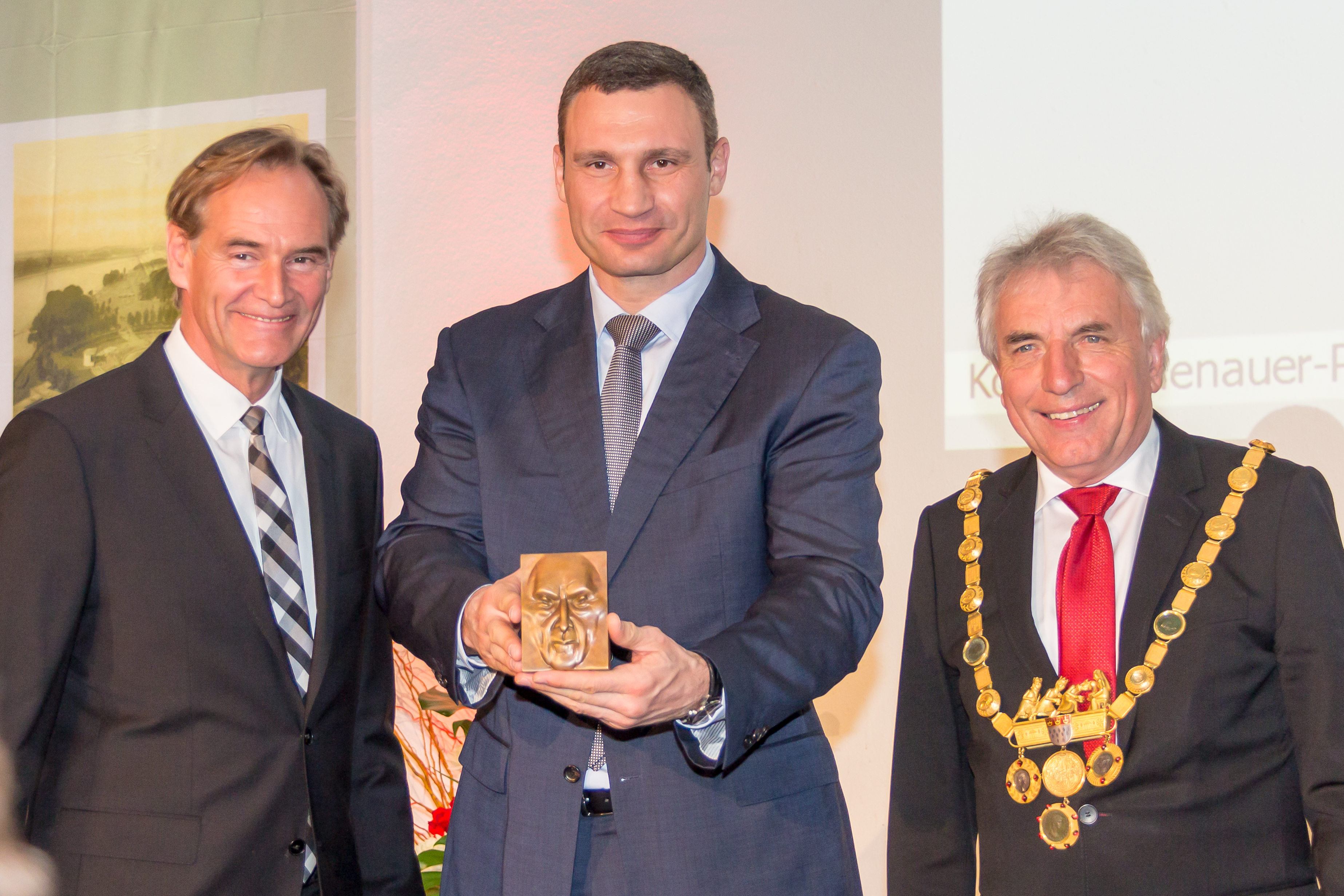 Awards Konrad Adenauer Prize of the City of Cologne 2015 Vitali Klitschko